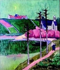 Brittany_Oriental_Landscape